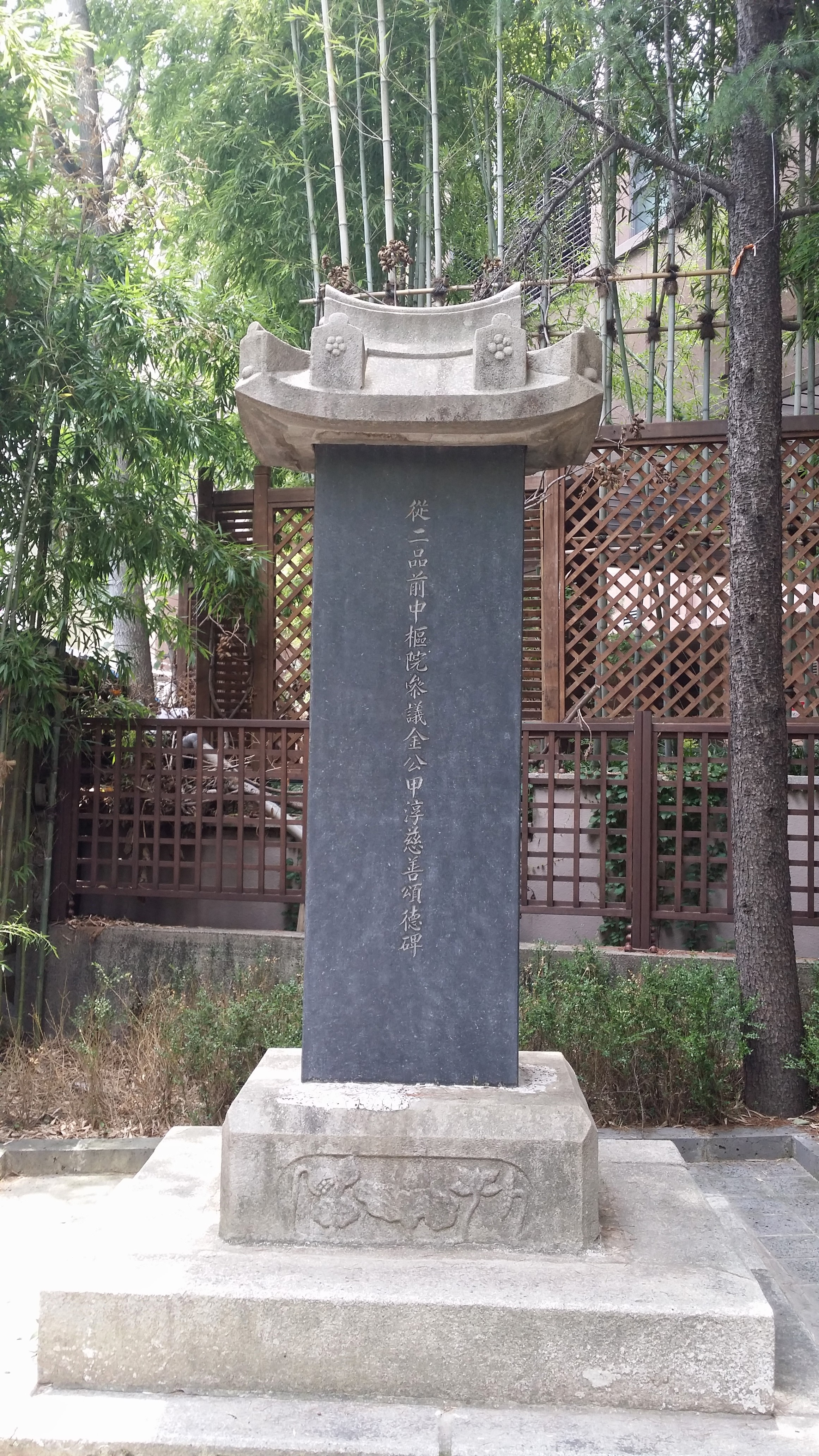 A monument in Yuseong Spring Park for Kim Gap-sun